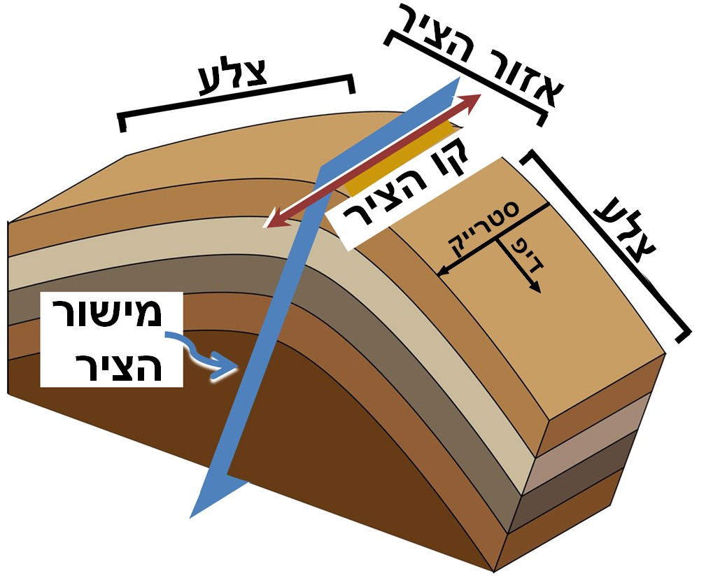 Flank and hinge of geological fold